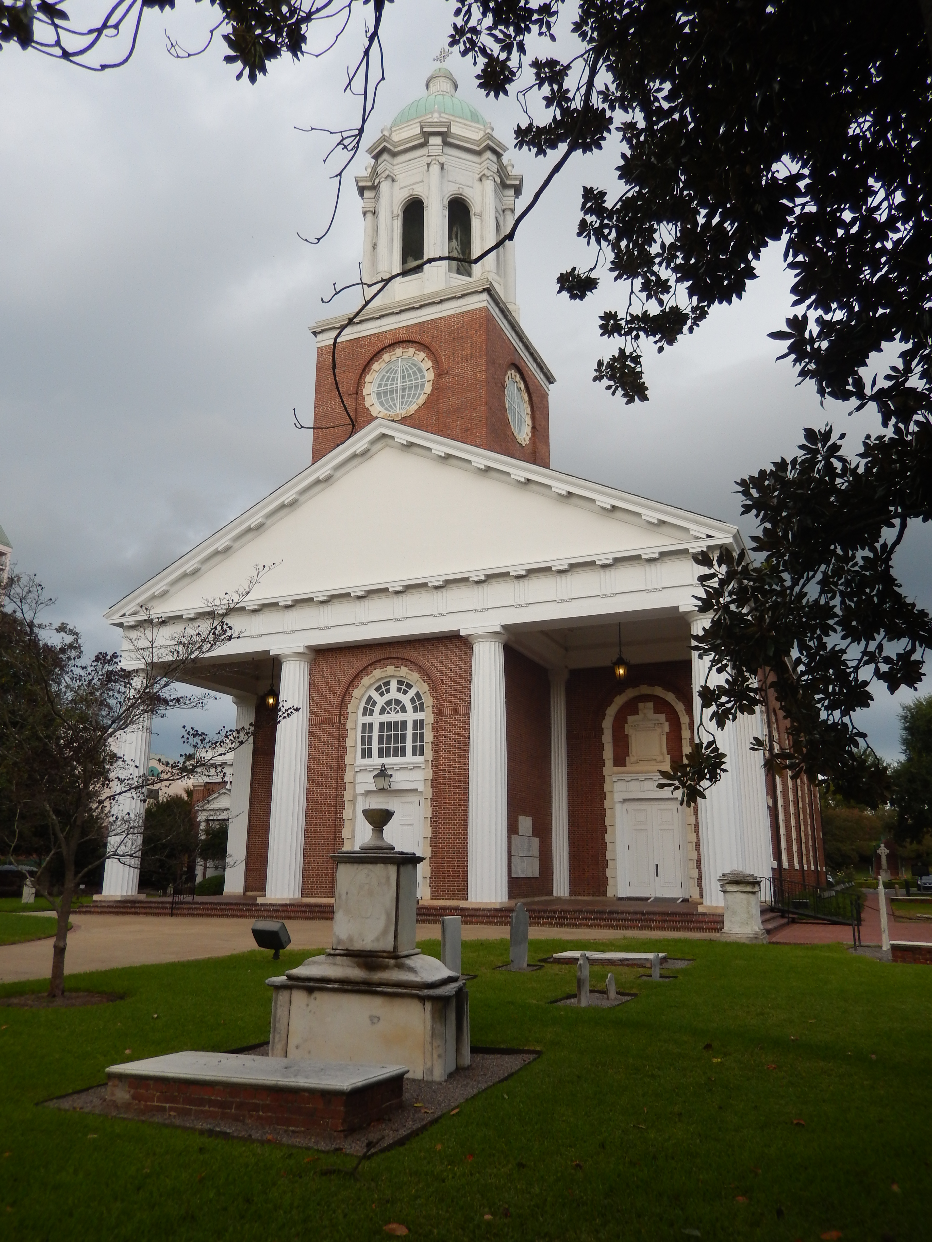 St. Paul